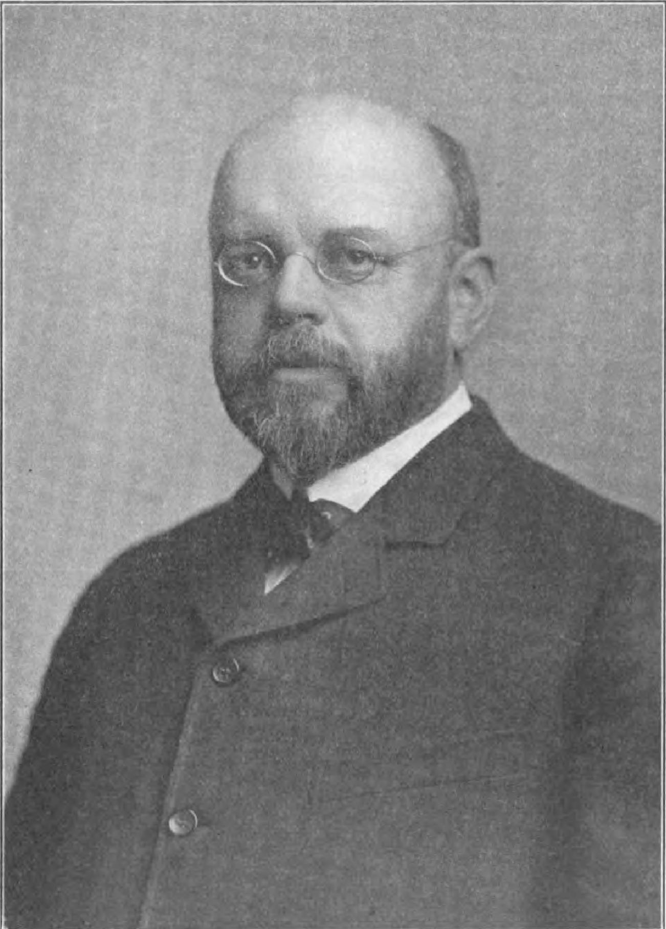 Library Journal v.35 1910